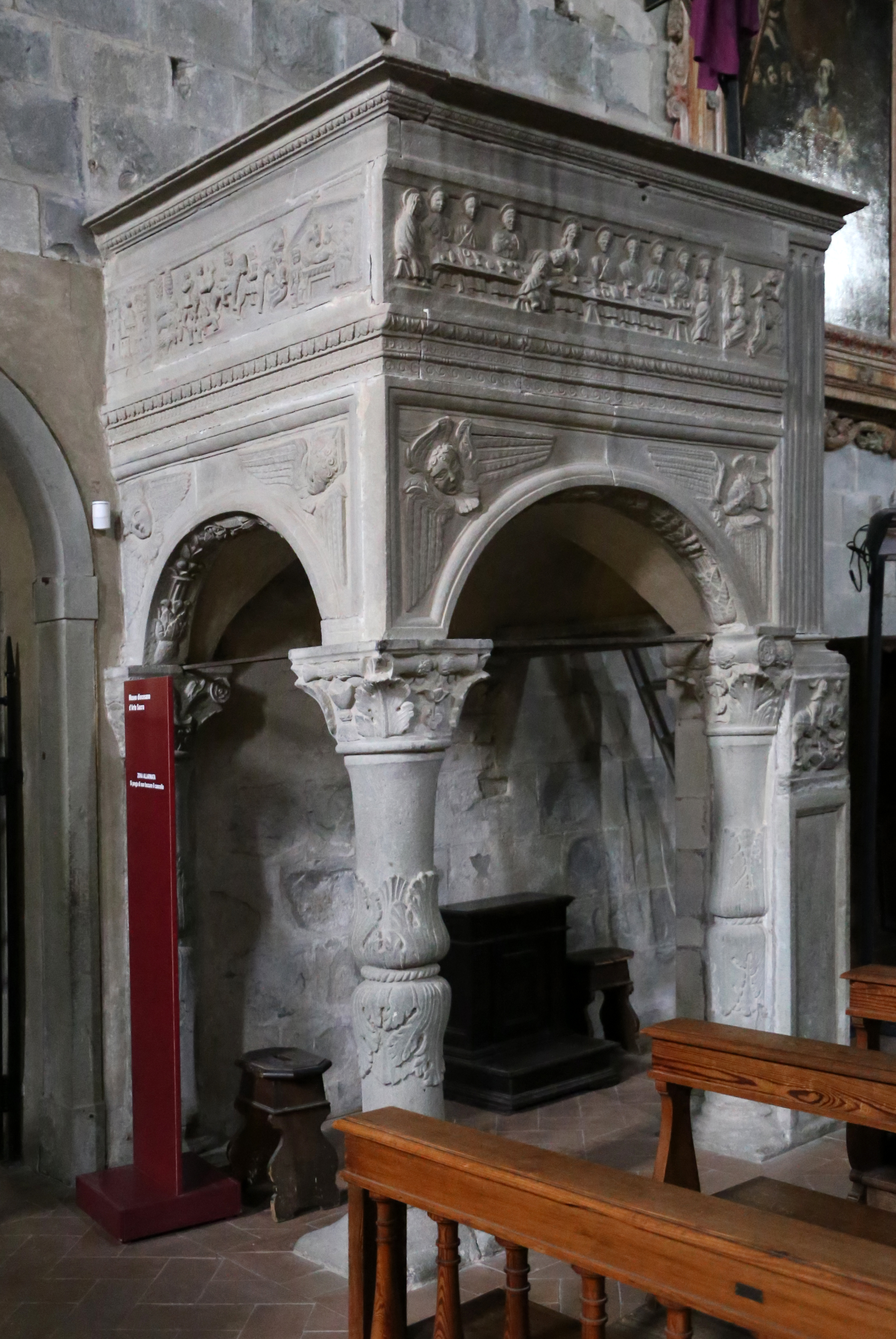 Santa Maria Assunta (Popiglio, San Marcello Piteglio) - Pulpit